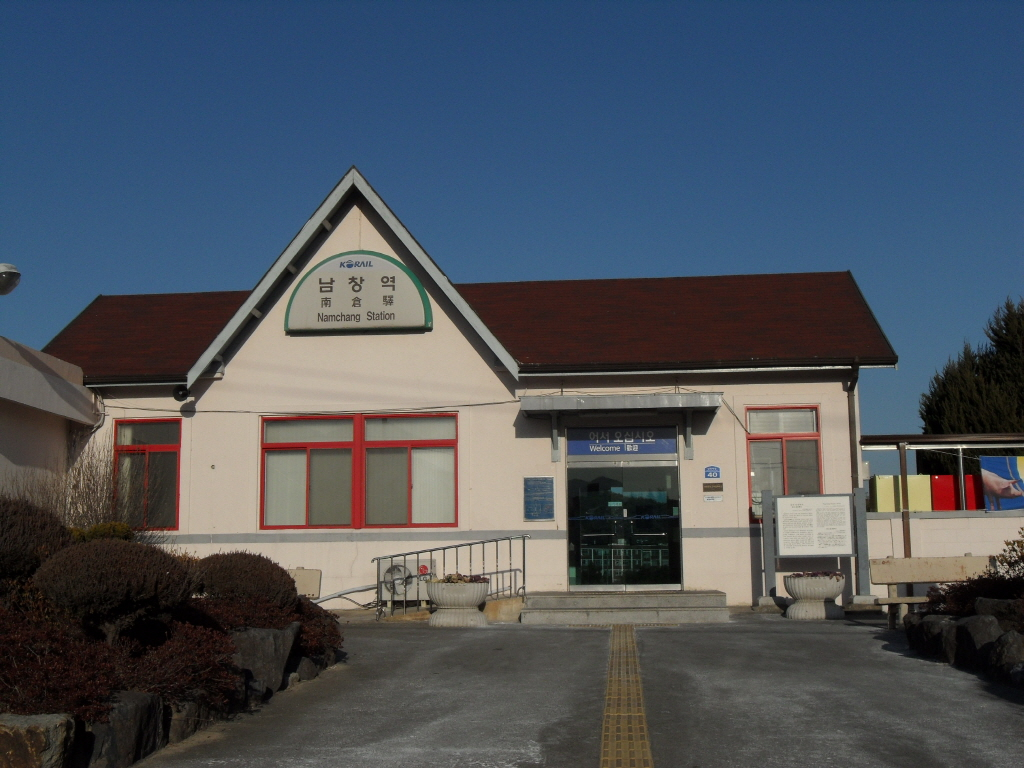 Korail Namchang Station